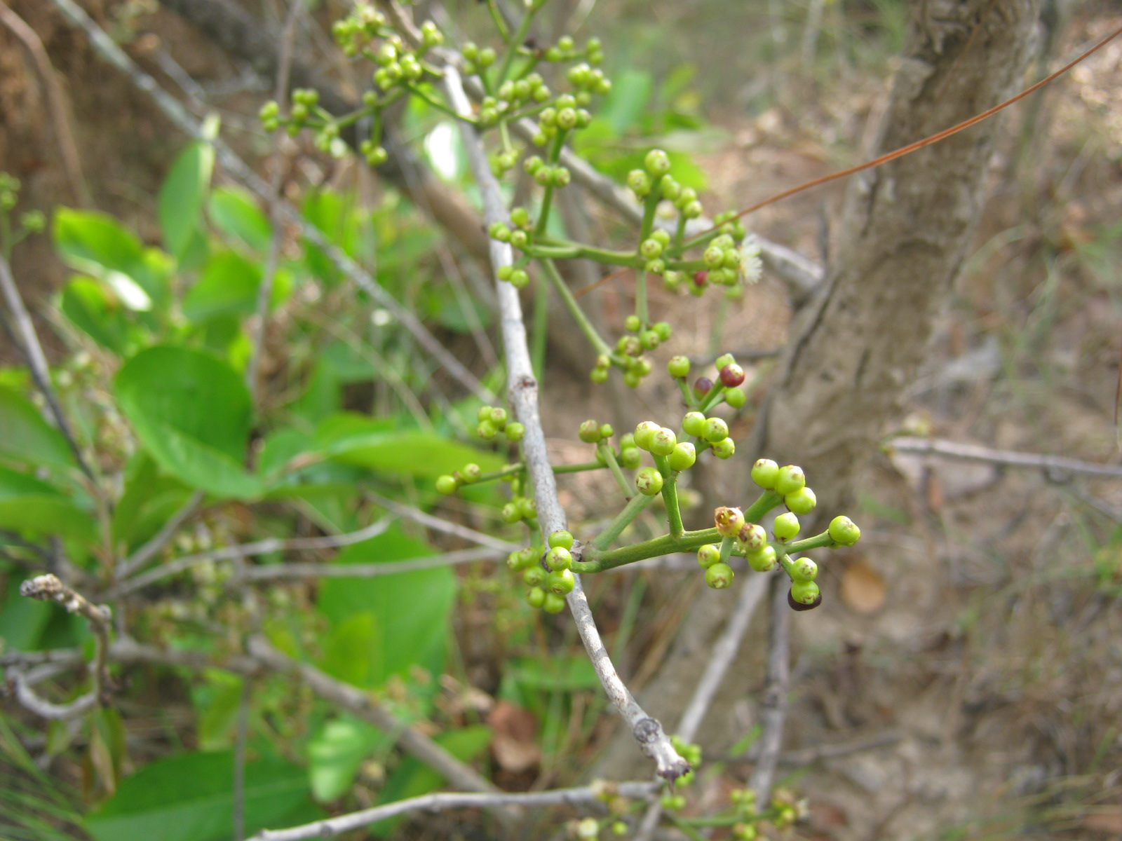 Fruit of Cleistocalyx operculatus in a forest of Panchkhal valley in Nepal.